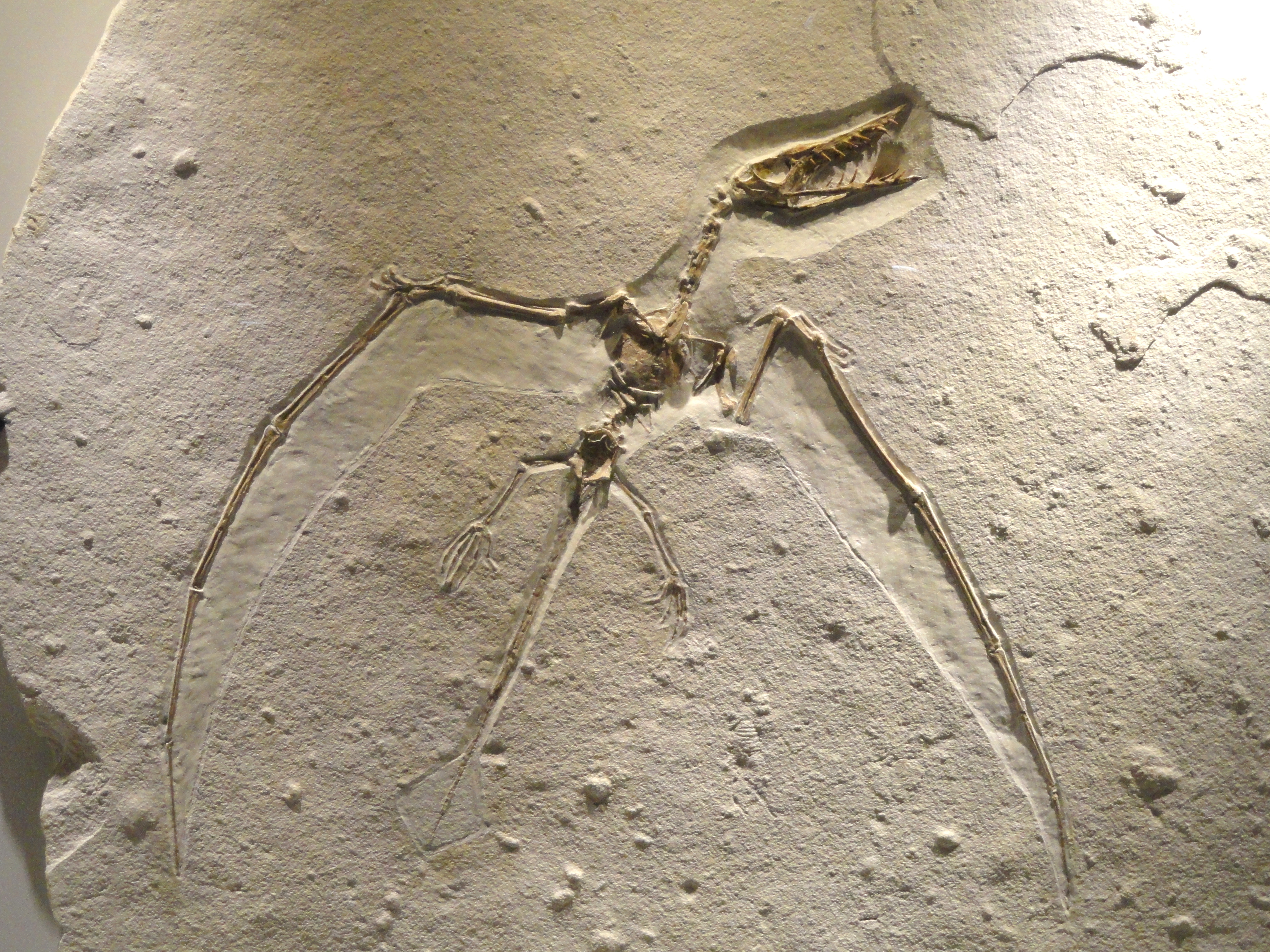 Exhibit in the Houston Museum of Natural Science, Houston, Texas, USA.